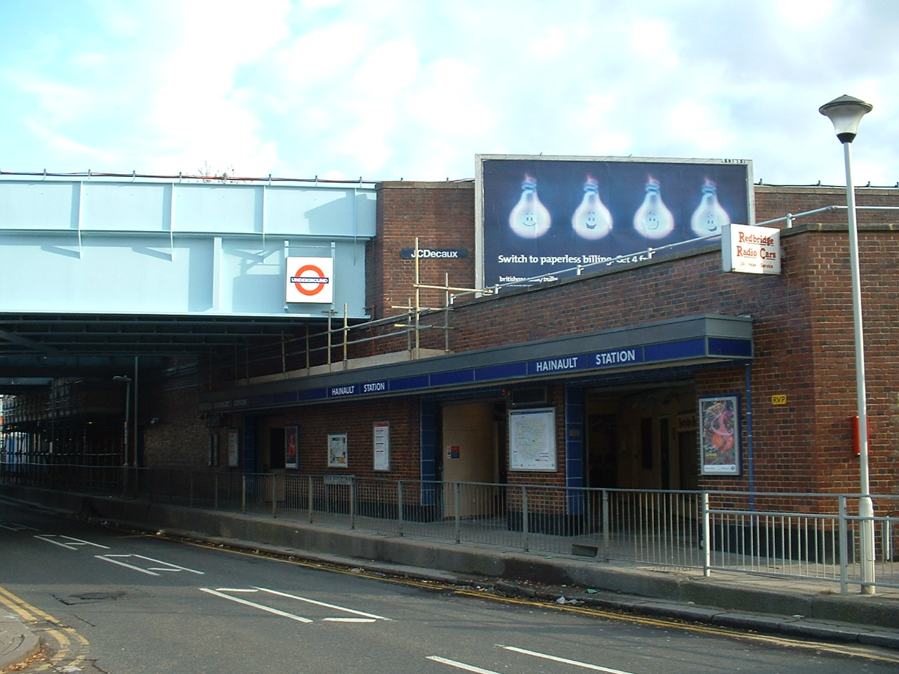 Hainault tube station building, on New North Road. Refurbishment work in progress on the other side of the railway bridge. Sunil060902, 11th November 2007.